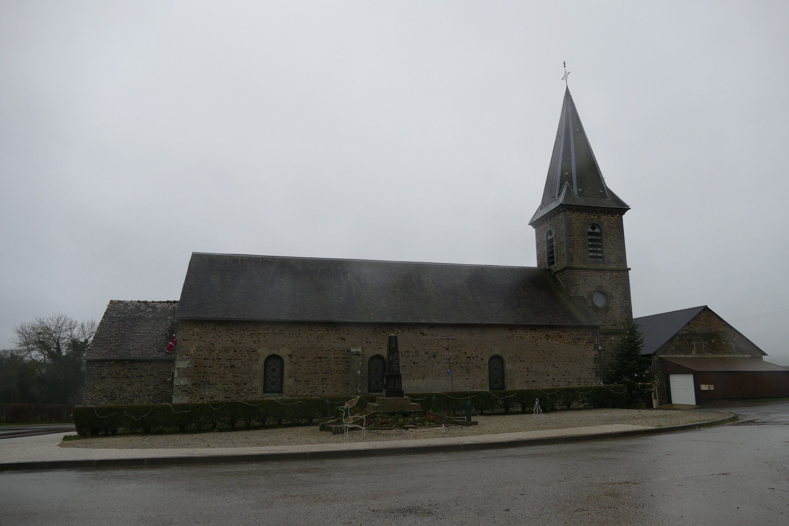 Saint-Peter's church in Longuenoë (Orne, Normandie, France).